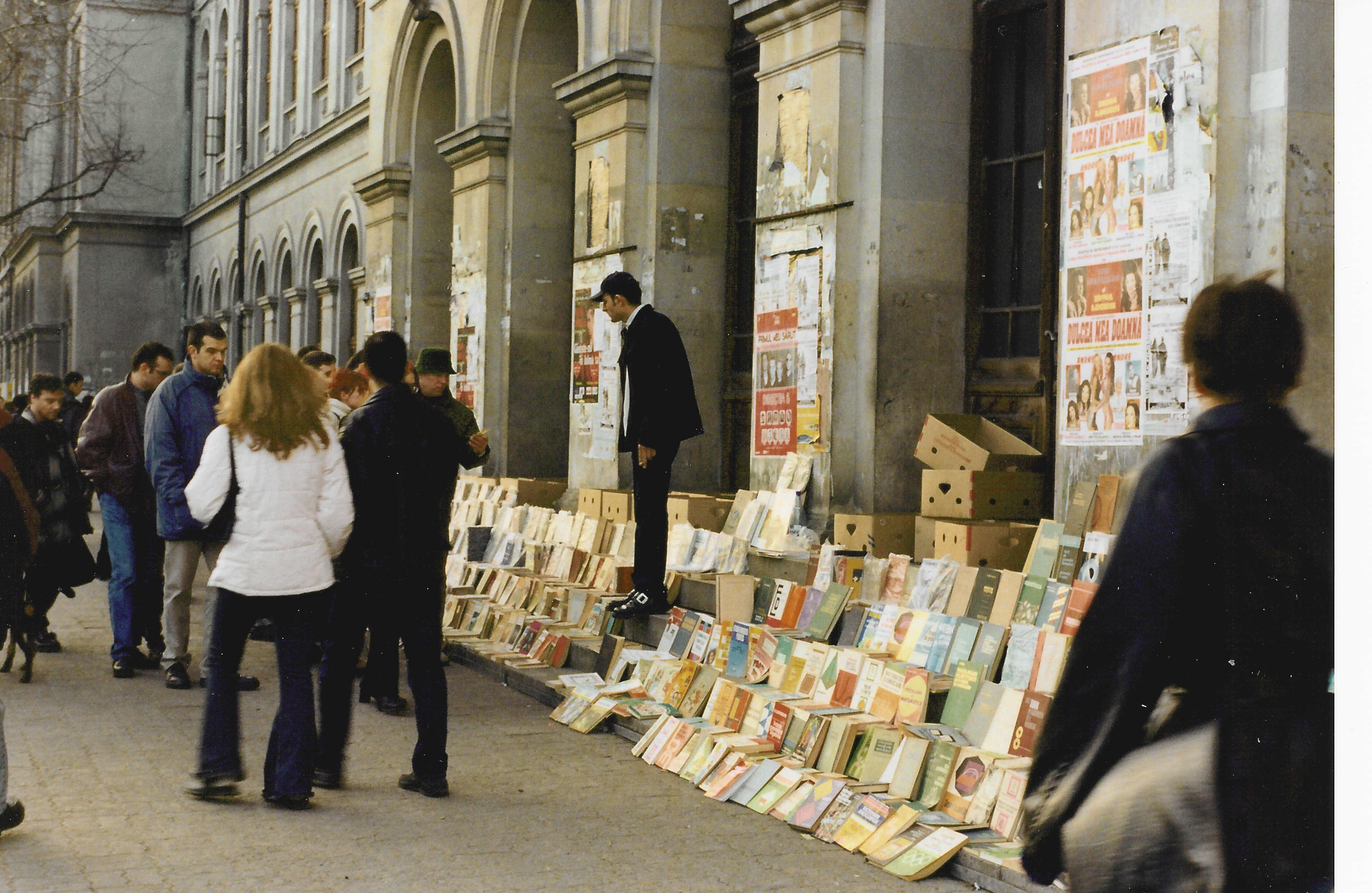 Street booksellers near the University of Bucharest, Romania